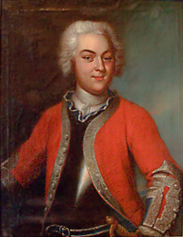 Schack Carl (von) Rantzau (1717-1789), German Count-of-the-Realm, Danish General and politician